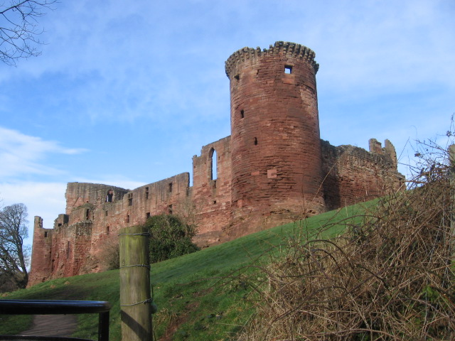 Bothwell Castle from the Clyde Walkway